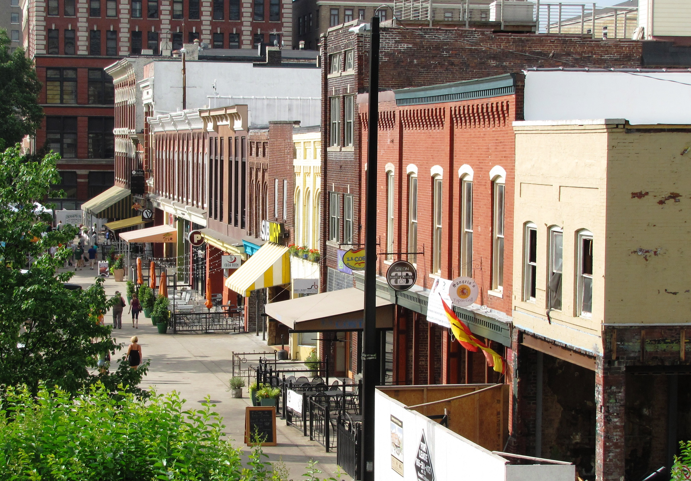 Row of buildings on the west side of Market Square in Knoxville, Tennessee, USA. The buildings pictured, from right to left: 1. 37 Market Sq. (the vanilla-colored building on far right), circa 1870. 2. 33-35 Market Sq. (Barnes & Barnes Salon and Sangria's), circa 1892. 3. 31 Market Sq. (La Costa), circa 1890. 4. 29 Market Sq. (Smee Busby Architects), circa 1920. 5. 27 Market Sq. (the bright yellow building), circa 1890. 6. 25 Market Sq. (Subway), circa 1890. 7. 23 Market Sq. (building with the turquoise trim), circa 1890. 8. 17, 19, 21 Market Sq. (Cocoa Moon), 1960. 9. 11, 13, 15 Market Sq. (from the black "VS" sign to the brown "P" sign), circa 1890. 10. 9 Market Sq., Ziegler Building (tall building with gold canopy), circa 1880. 11. 7 Market Sq. (short building between Ziegler and the Mall Building), circa 1890. 12. 1, 3, 5 Market Sq. (Mall Building), 1875. The seven-story Arnstein Building (c. 1906) rises beyond the Mall Building.